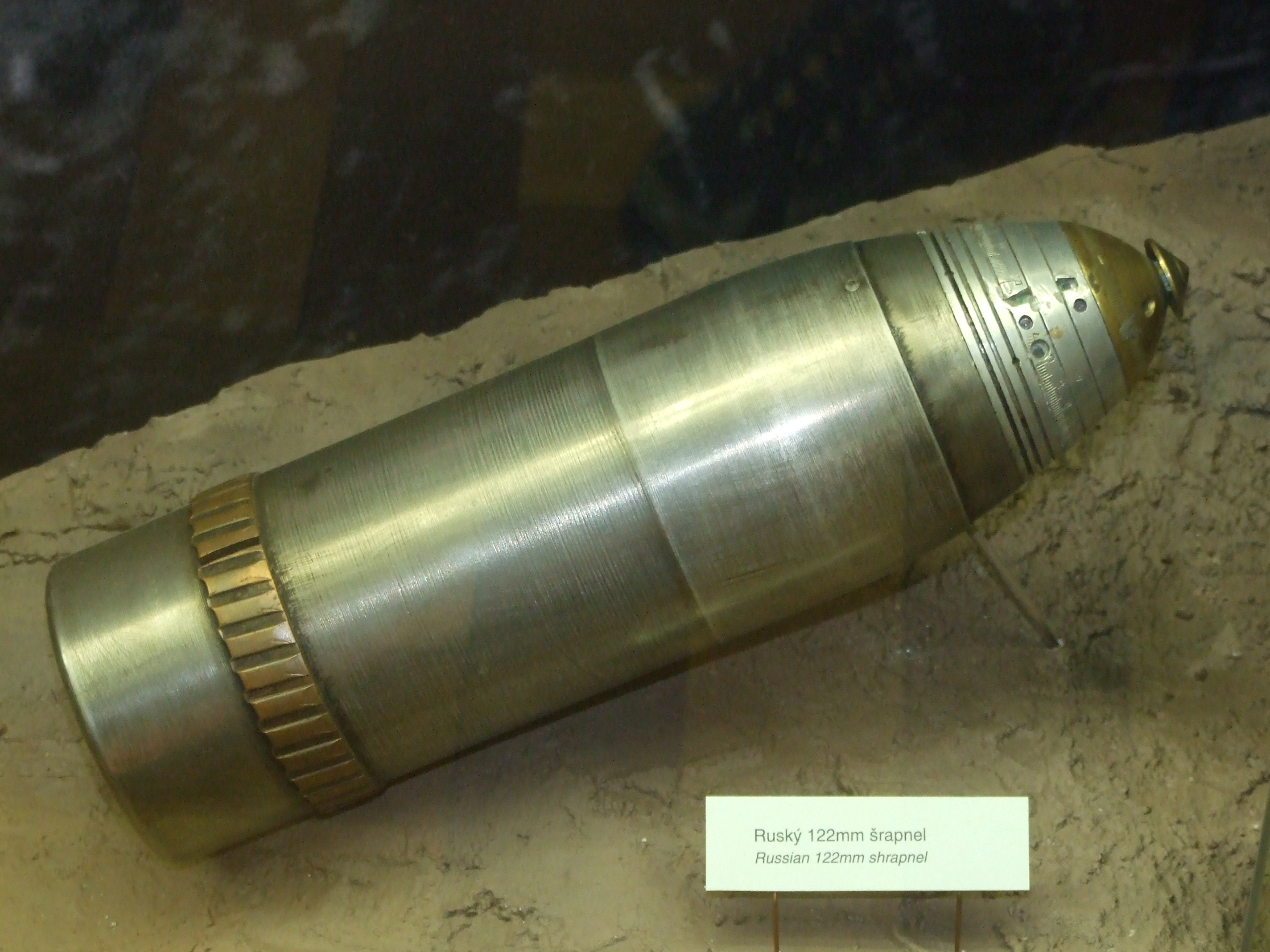 Russian 122 mm shrapnel shell. Military museum of Prague.